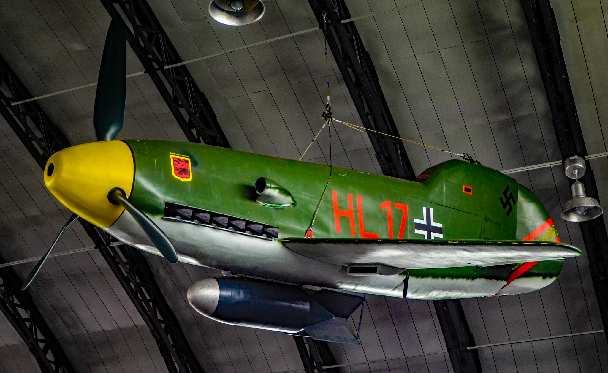 Military Aviation Museum Virginia Beach Airport (42VA) Photo: TDelCoro July 21, 2018